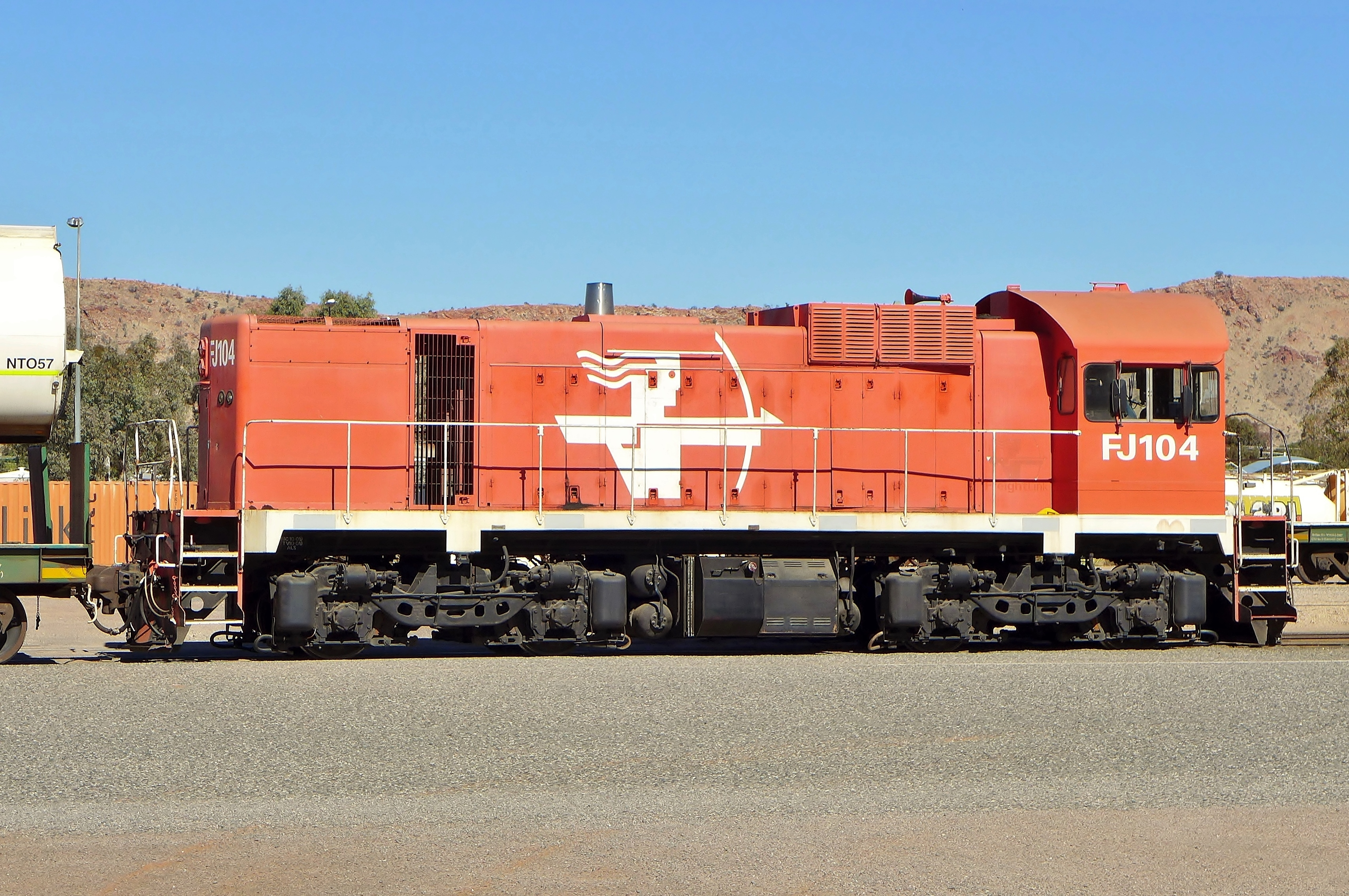 View of WAGR J class locomotive no. FJ104, still in the livery of the now-defunct FreightLink, shunting intermodal wagons at Alice Springs.